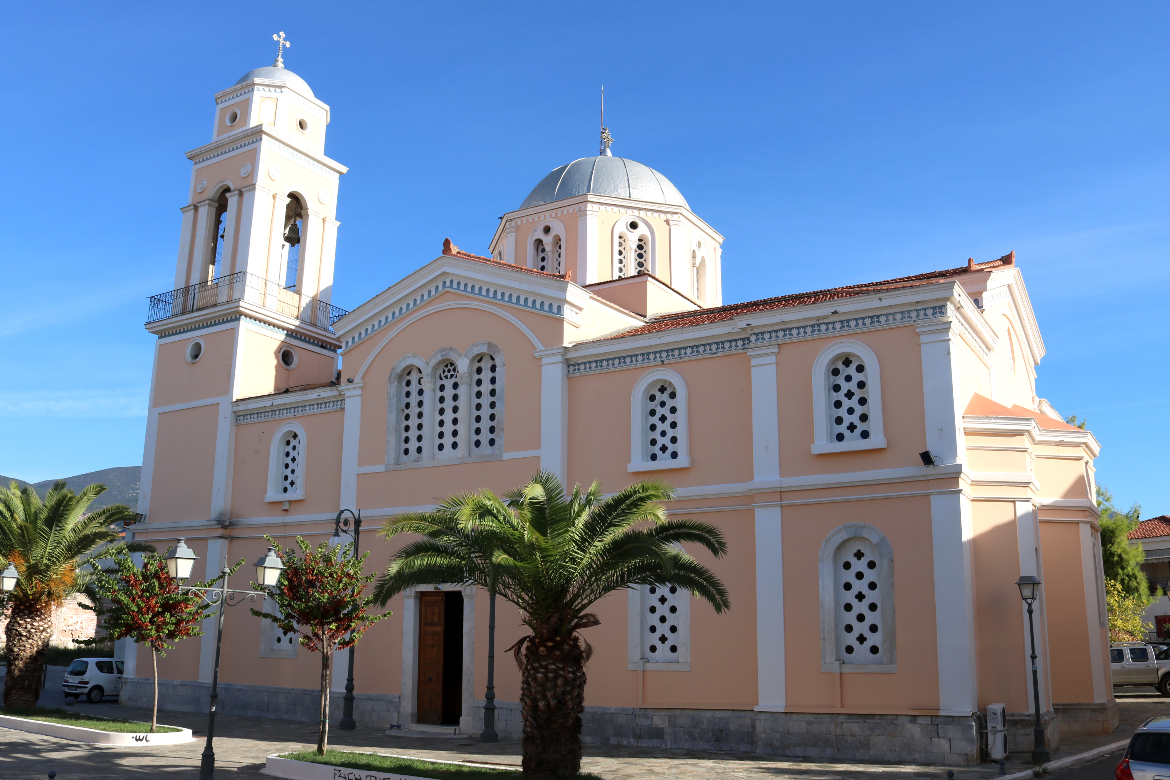 Church "Ekklisia Agios Ioannis" in Kalamata, Regional Unit Messenia, Region Peloponnese, Greek